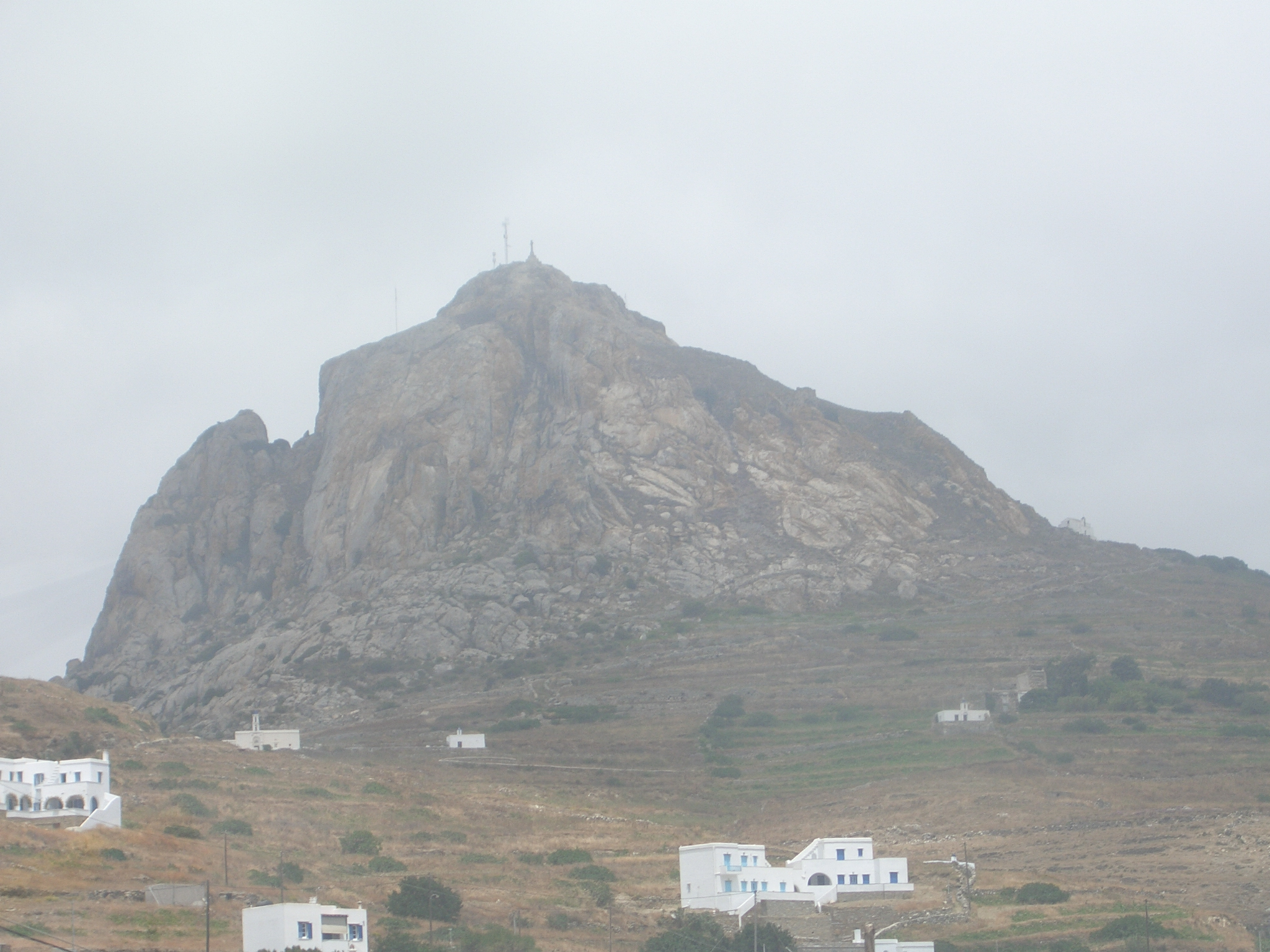 Picture of Exomburgo